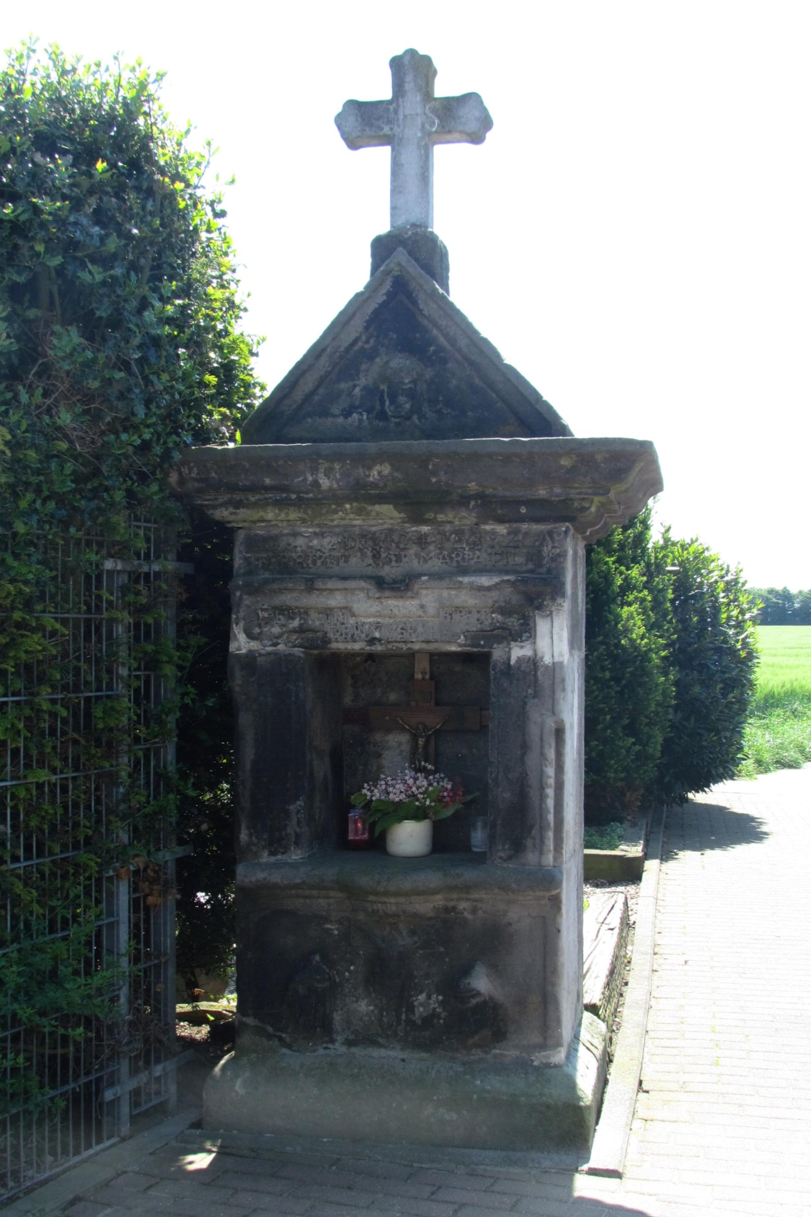 This is a photograph of an architectural monument.It is on the list of cultural monuments of Korschenbroich